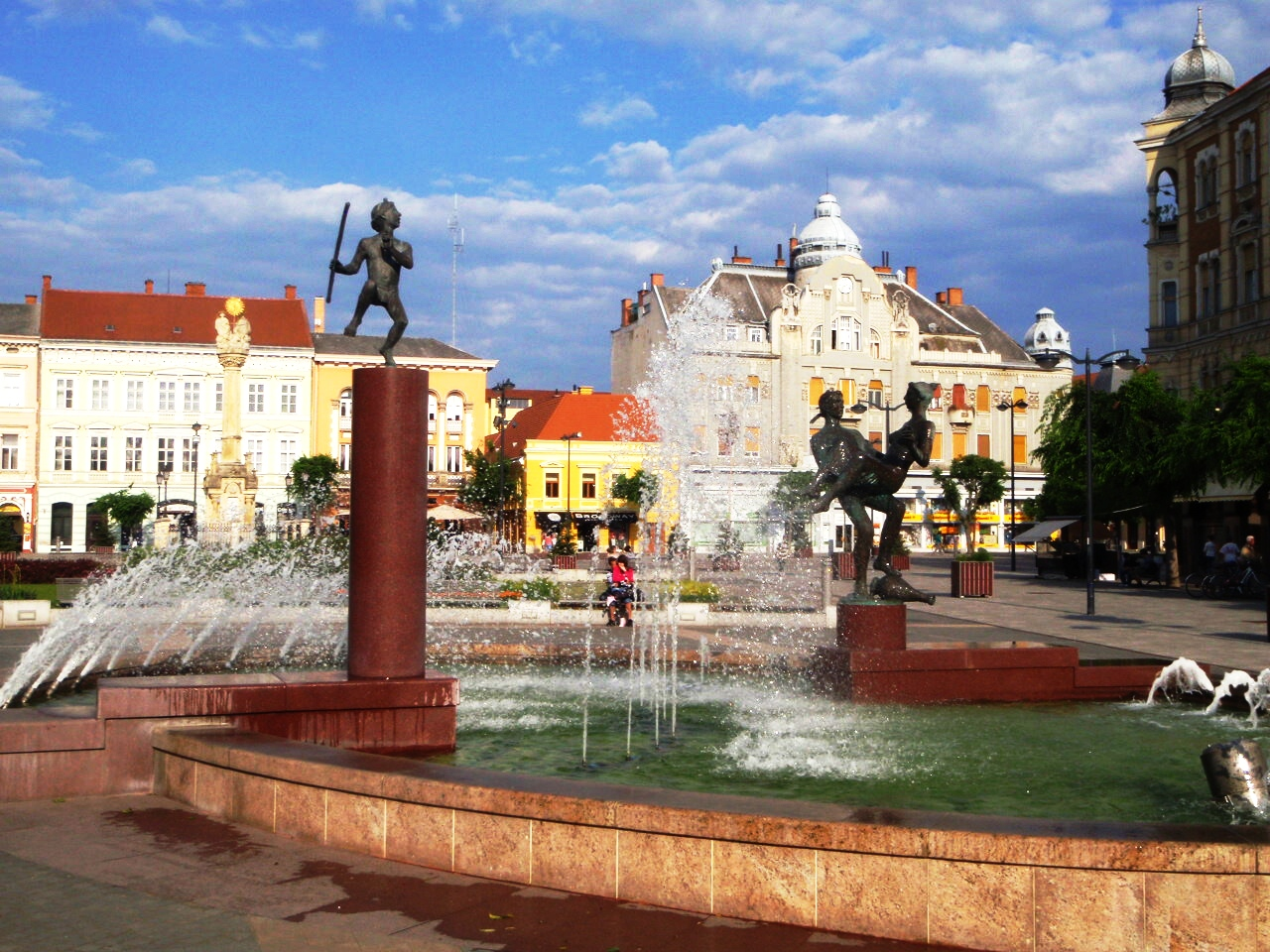 Szombathely Main Square